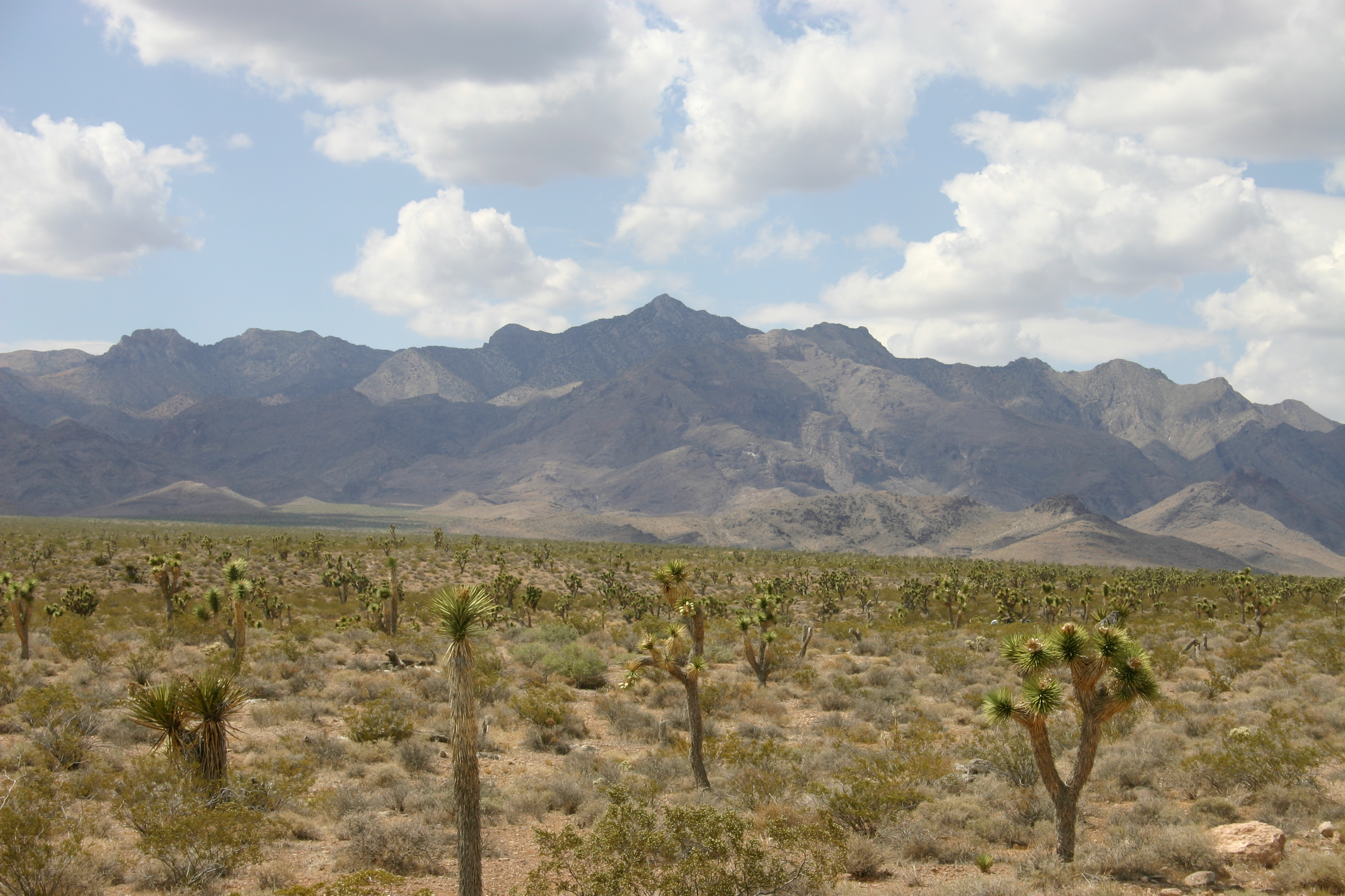 Mormon Mountains in southeast Nevada. (east of the Overton Arm of Lake Mead, and the wash: Meadow Valley Wash; also north of the South Virgin Mountains, bordering northeast Lake Mead, and the Virgin River confluence.)